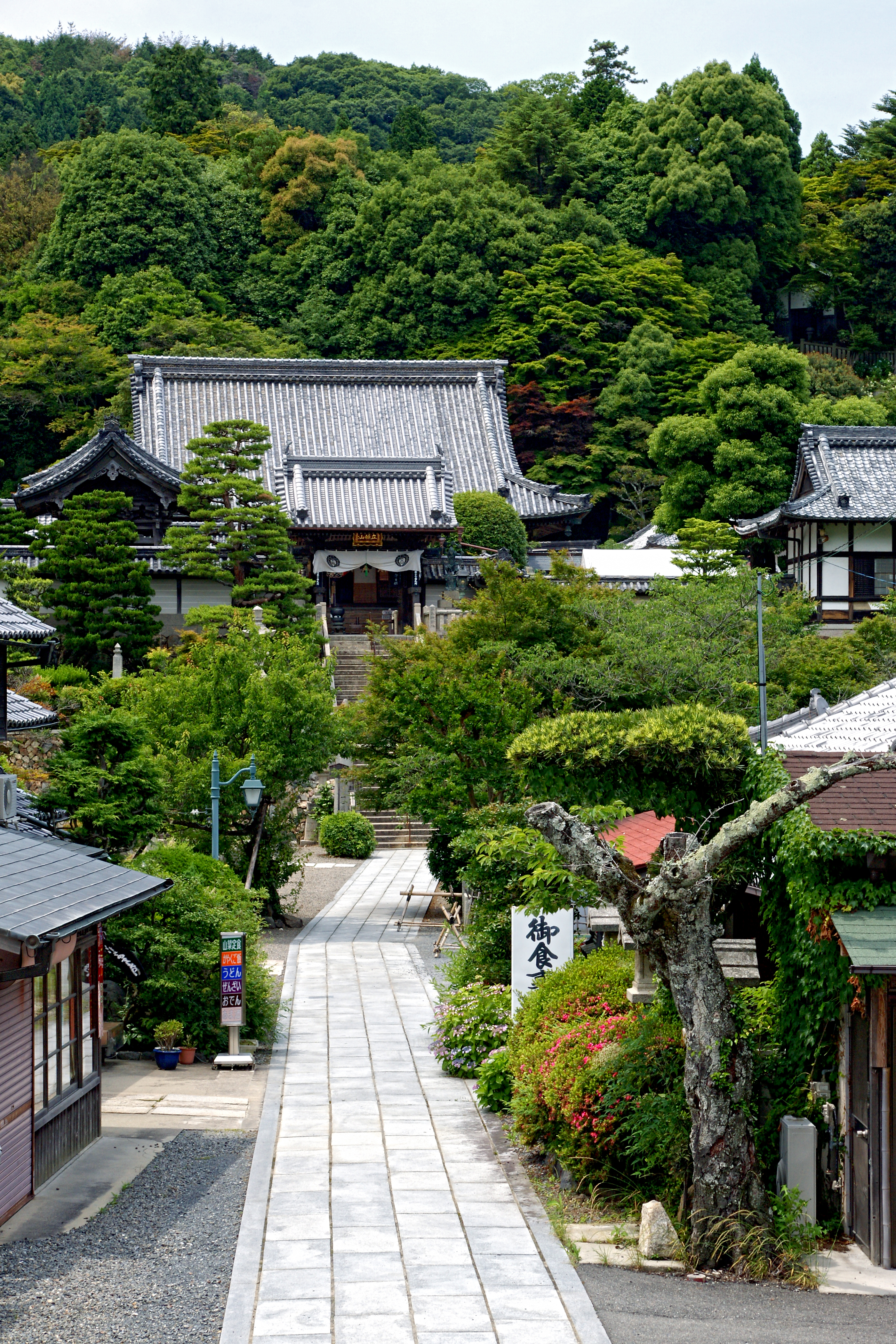 Yokoku-ji (Yanagidani-kannon) in Nagaokakyo, Kyoto prefecture, Japan